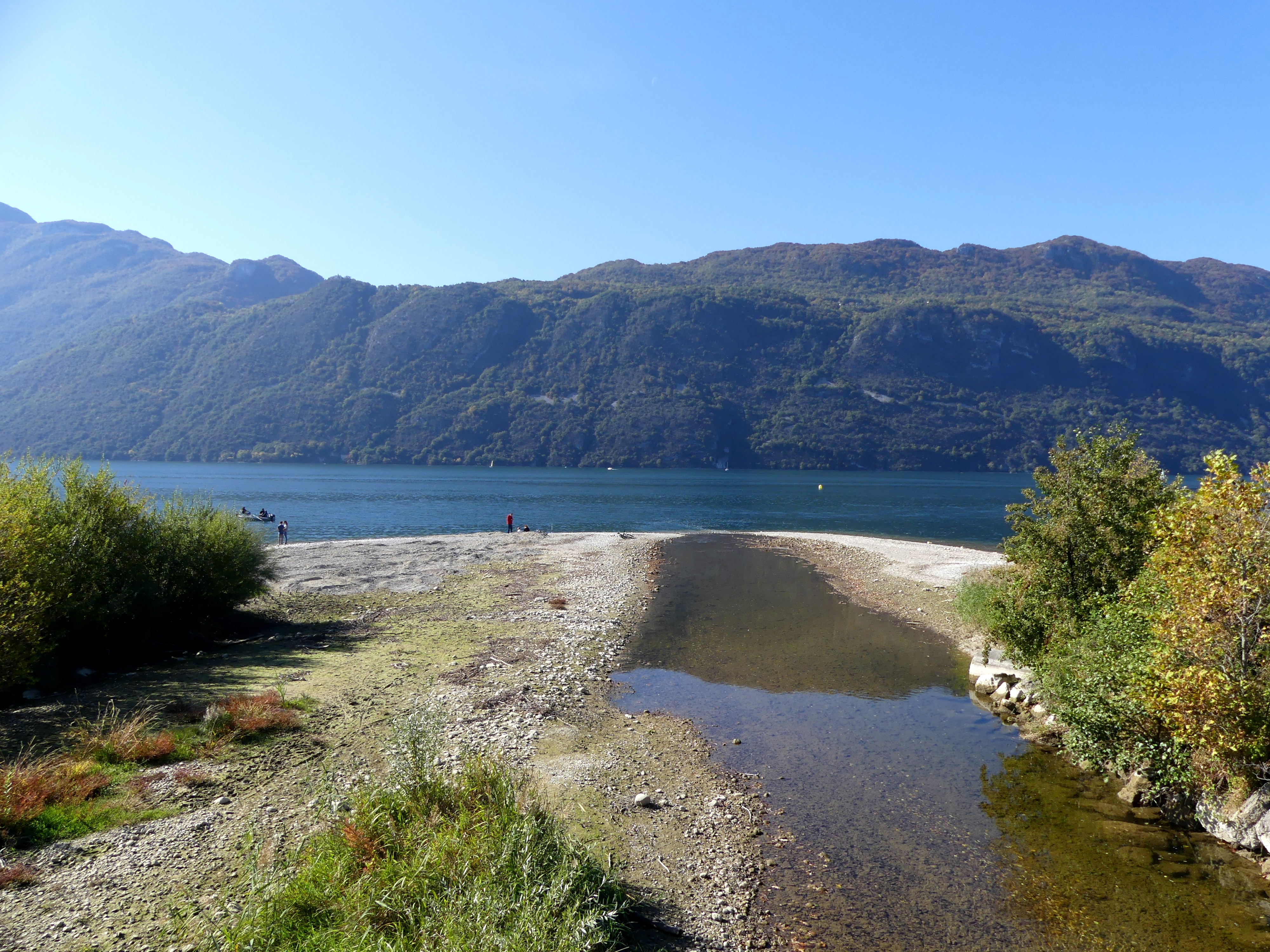 Sight of the Sierroz river flowing into the lac du Bourget lake, whose water level is lowered from 70 cm to regenerate the reed beds, in Aix-les-Bains, Savoie, France.